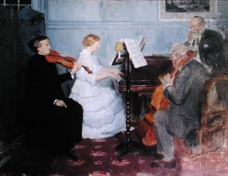 Chamber Music Concert